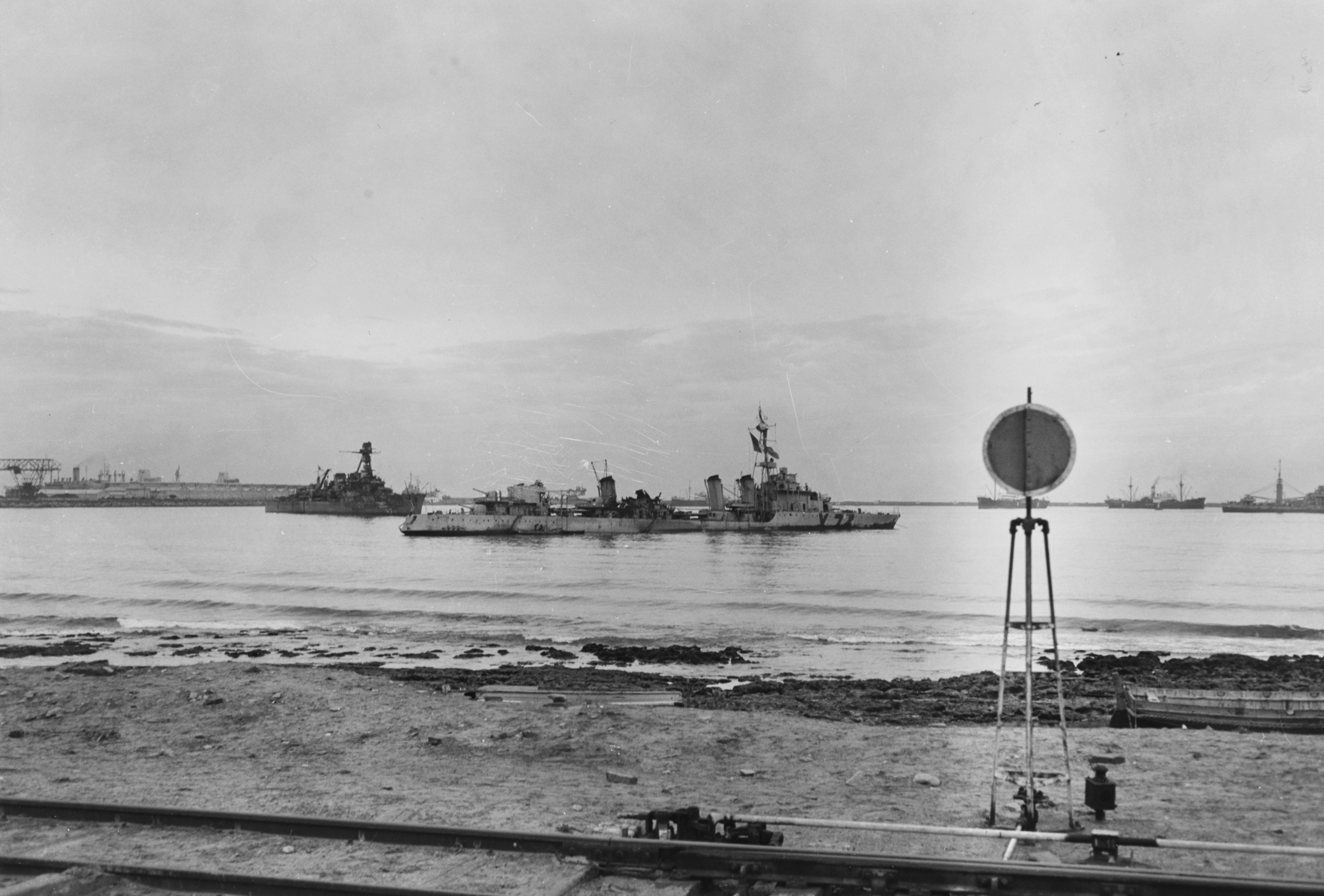 The French destroyer Albatros beached off Casablanca, Morocco on 4 December 1942. Beyond her stern is the French light cruiser Primauguet. Both ships were badly damaged during the Battle of Casablanca, 8 November 1942. Albatros' third smokestack has been destroyed and Primaguet is largely burned out forward. Note the railroad line and signal in the foreground and shipping in the right distance, including at least two French commercial freighters and, partially visible at far right, what appears to be the U.S. Navy cargo ship USS Electra (AK-21) lying very low in the water. She had been torpedoed by the German submarine U-173 on 15 November.